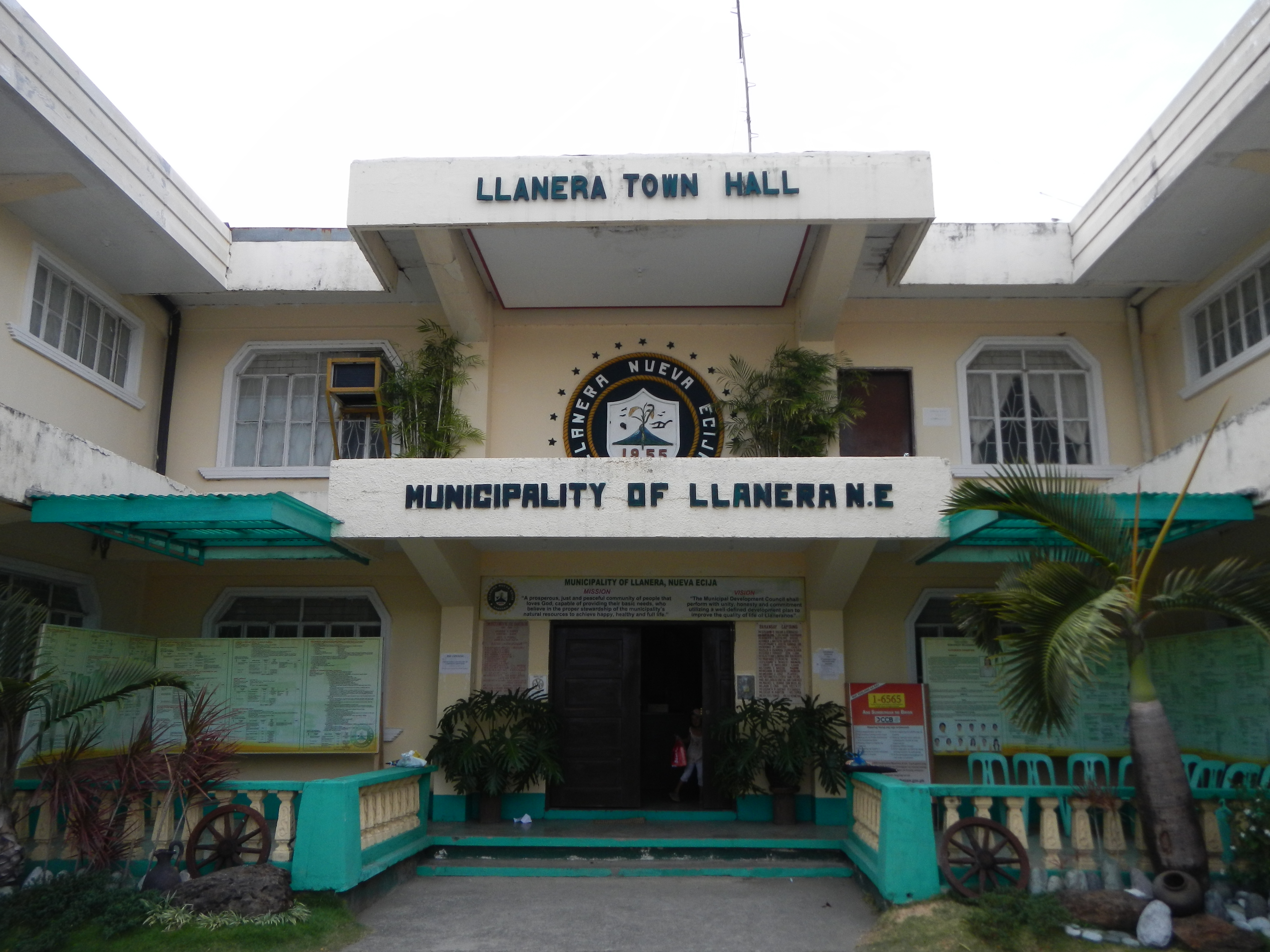 Llanera, Nueva Ecija[1] is a fourth class municipality in the province of Nueva Ecija, Philippines. According to the 2010 census, it has a population of 36,200 people.[2][3] Land Area: 114.44 km² ZIP Code: 3126 Coordinates: 15°39'44"N 120°59'30"E[4] [5]Mariano Llanera (1855-1942) of Gapan, Nueva Ecija. He was a Filipino General who fought in the provinces of Bulacan, Tarlac, Pampanga, and Nueva Ecija.